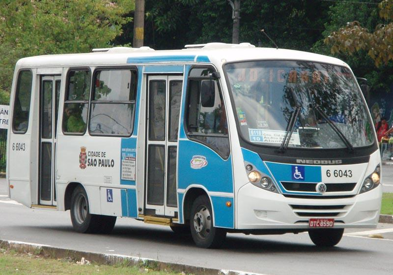 Neobus Thunder bus (#6 6043) with Volkswagen Volksbus 9-150 chassis in São Paulo City, Brazil. CooperPam operator.